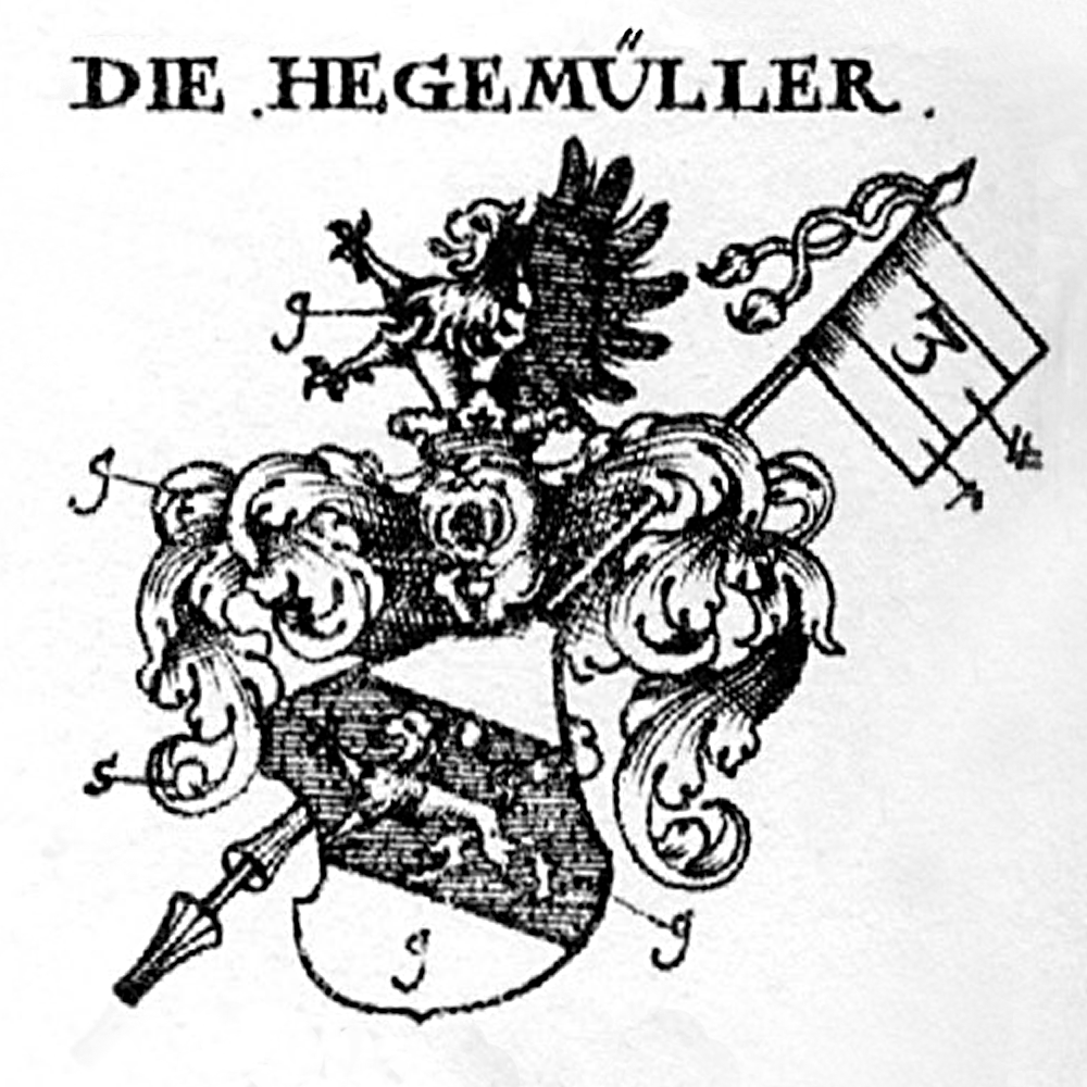 Coat of Arms of Hegemueller